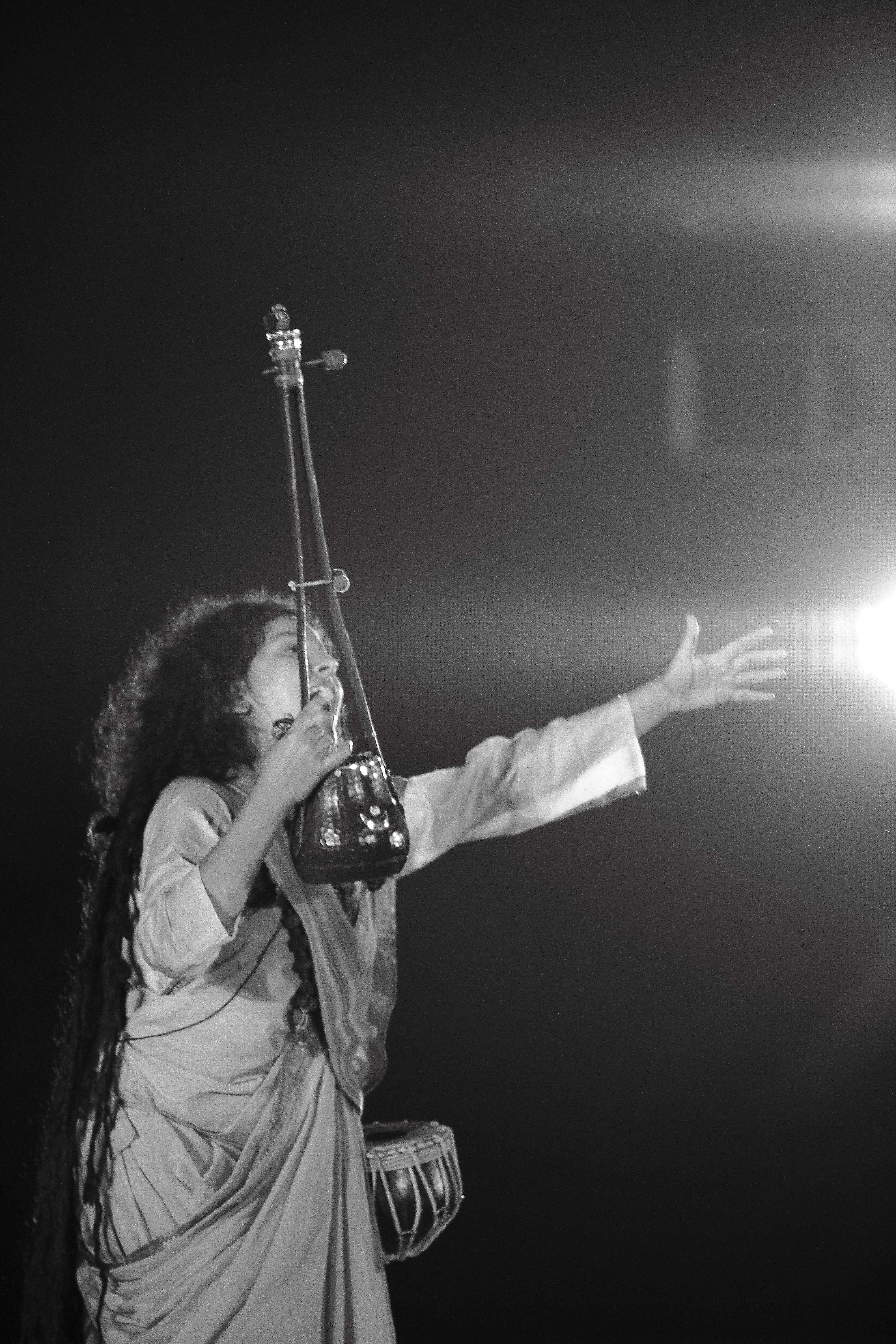 Baul, are a group of mystic minstrels from Bengal